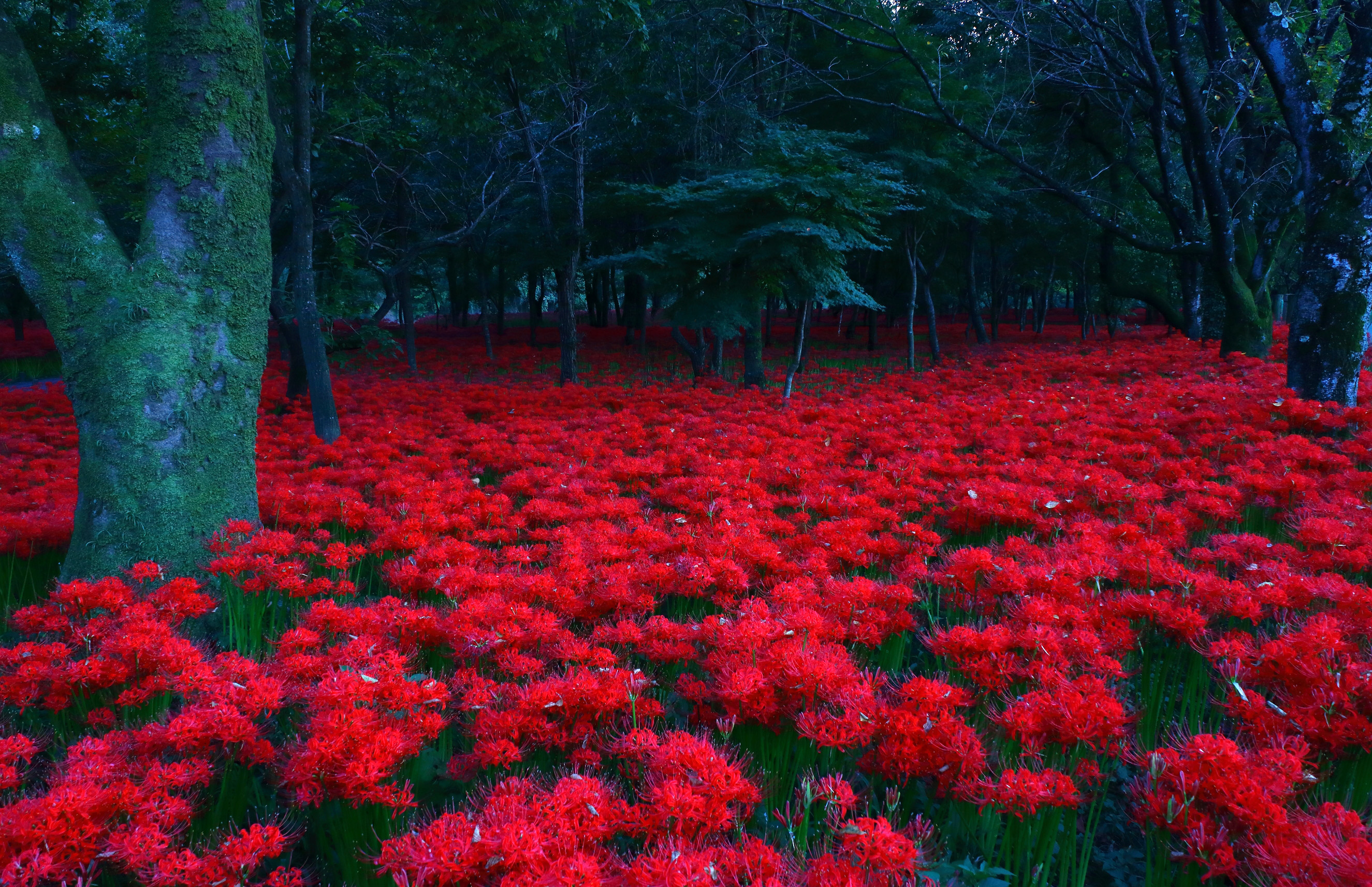 Kinchakuda Plateau, Hidaka, Saitama